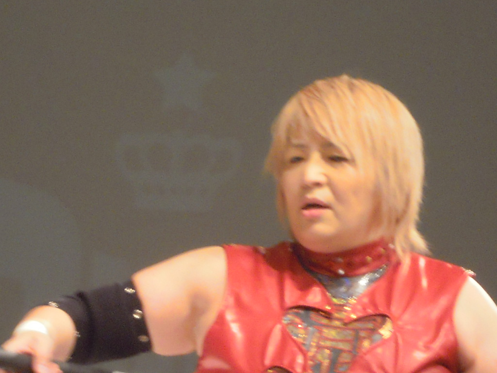 Japanese professional wrestler,Yumiko Hotta. Nov 27 2011.